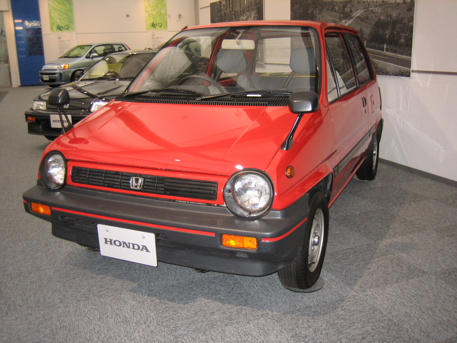 I photoed Honda City in the Honda collection hole.